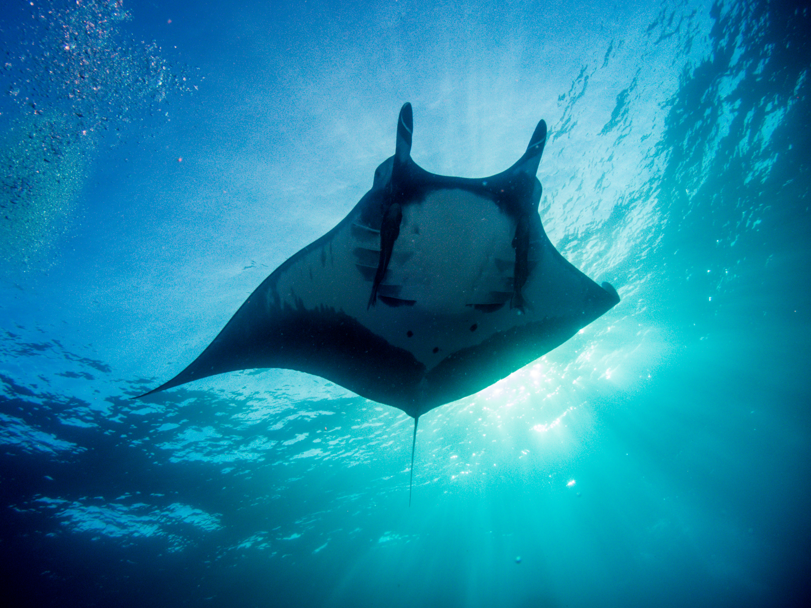 oceanic manta, Socorro. photo Steve Laycock